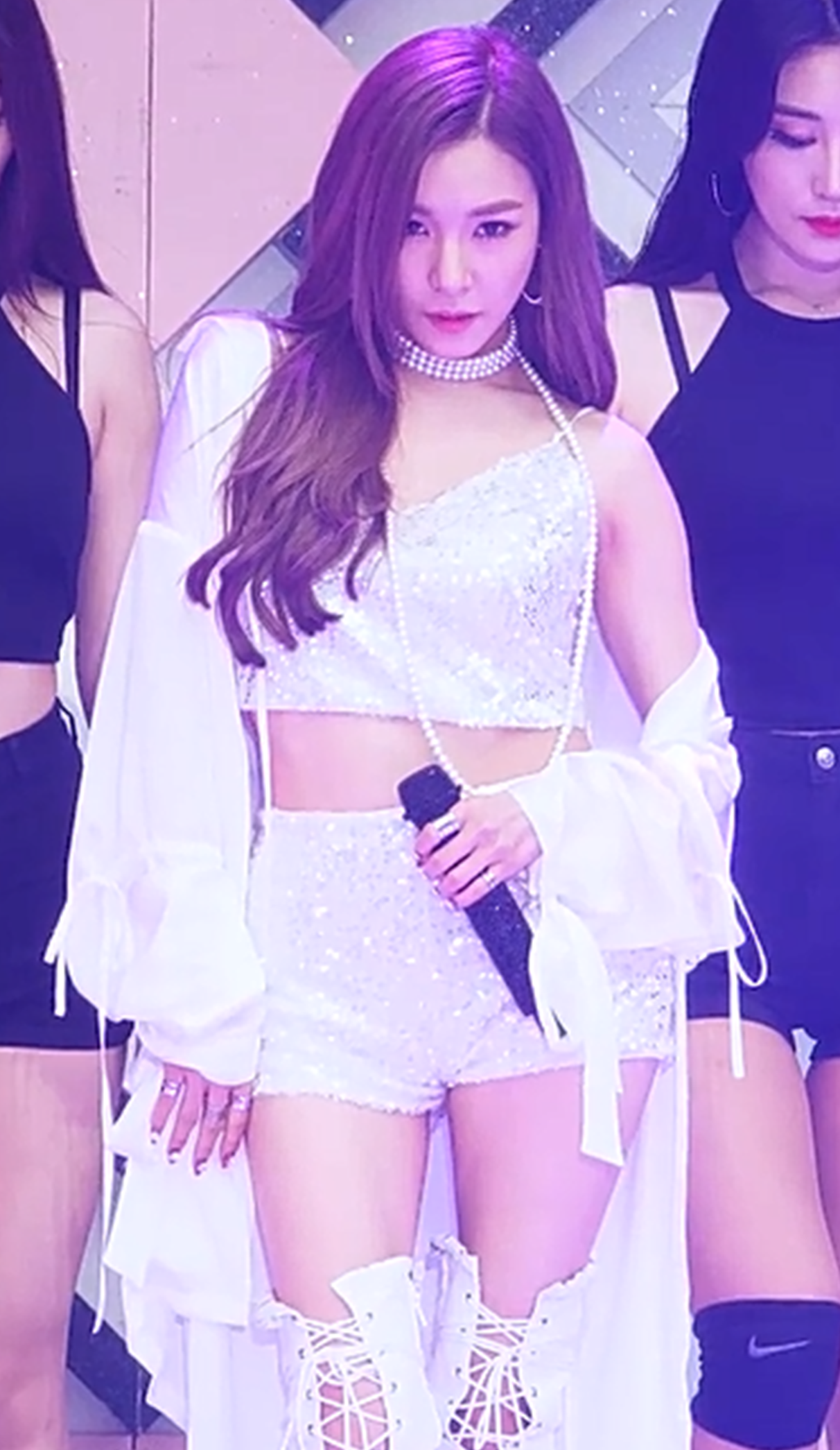 Tiffany Hwang performing "I Just Wanna Dance" at SMTown Live World Tour VI on July 8, 2017.